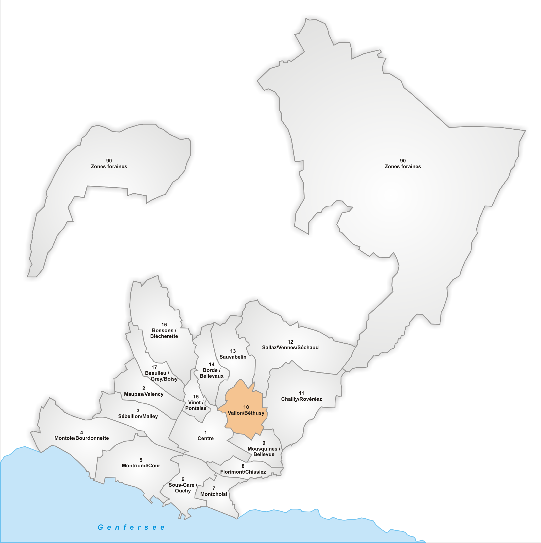 Lausanne Quarter 10